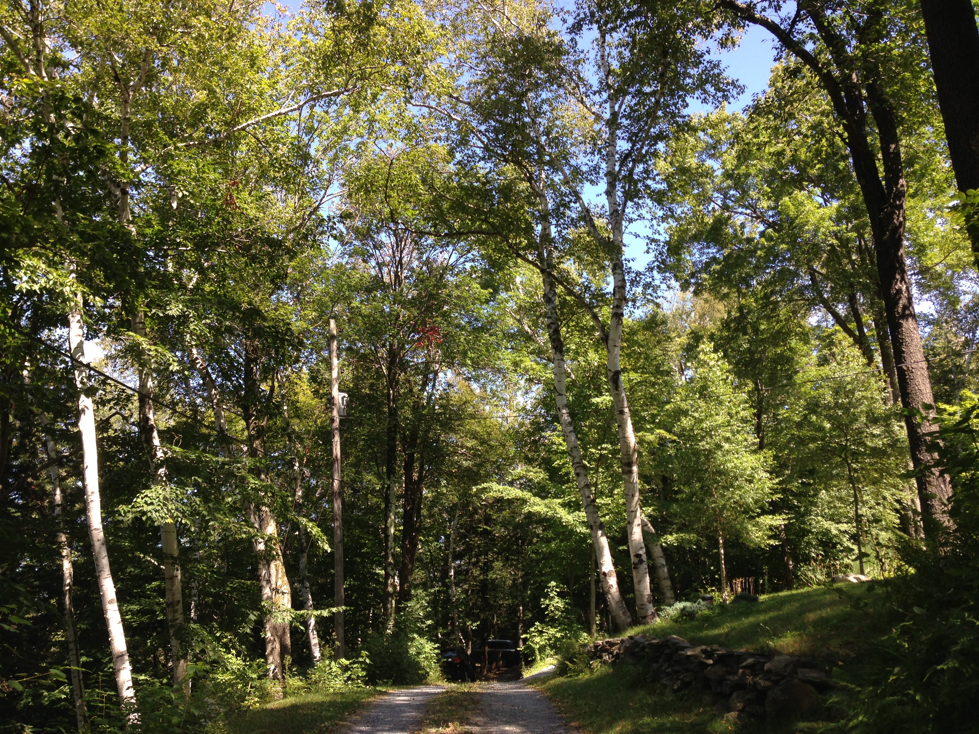 View northeast near 50 Ridge Road at Spring Lake in Berlin, New York on August 25th 2013 - horizontal alignment